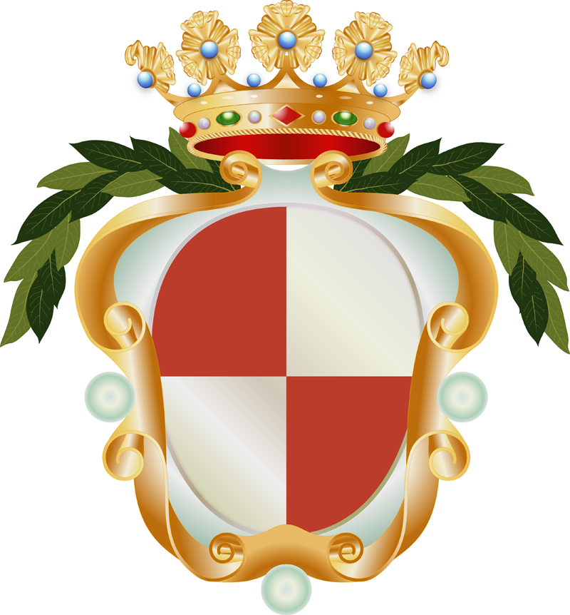 Coat of arms of Sant'Agata de' Goti (Benevento), Italy